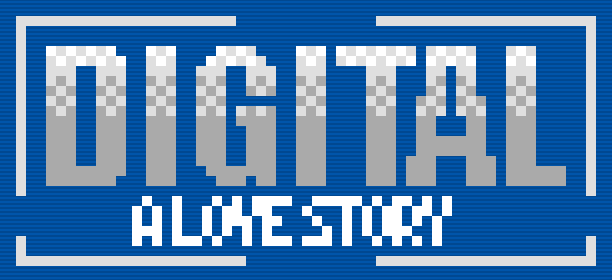 Logo for Digital: A Love Story, with the blue background.